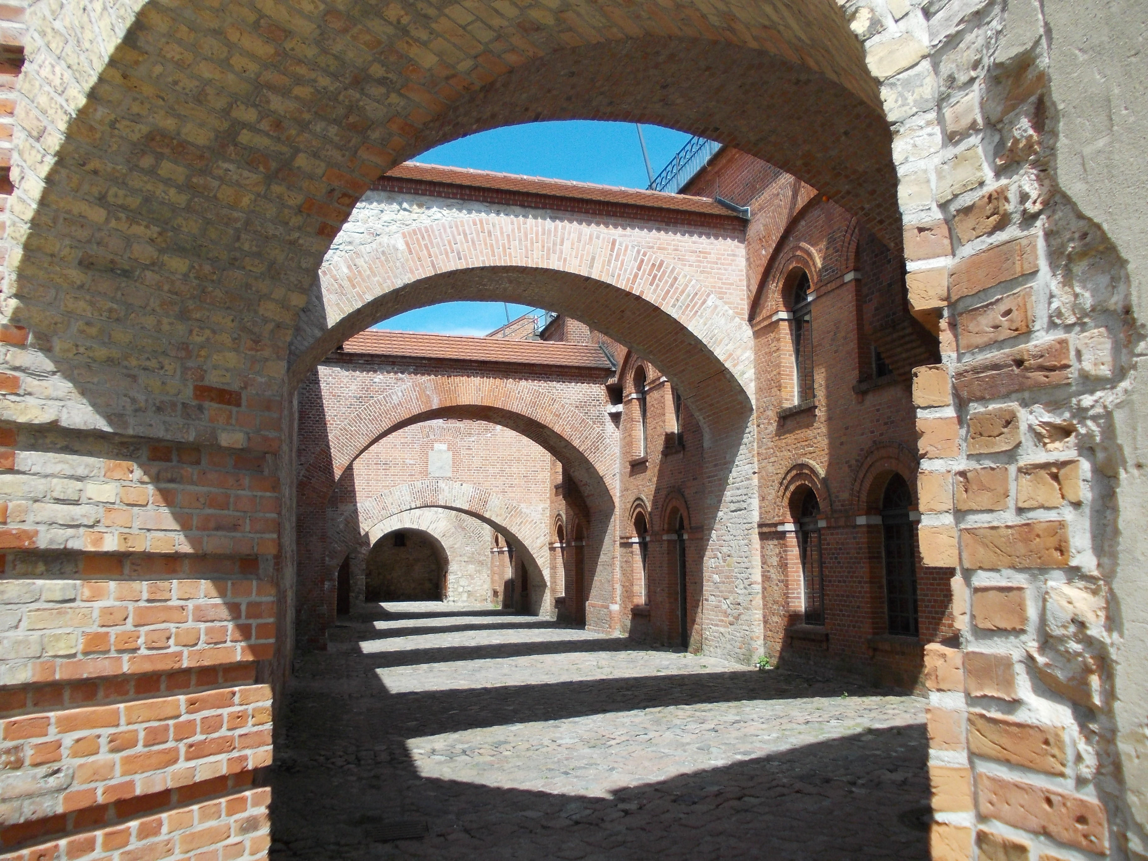 Italian Courtyards in Spandau Citadel (Berlin)This is a photograph of an architectural monument.